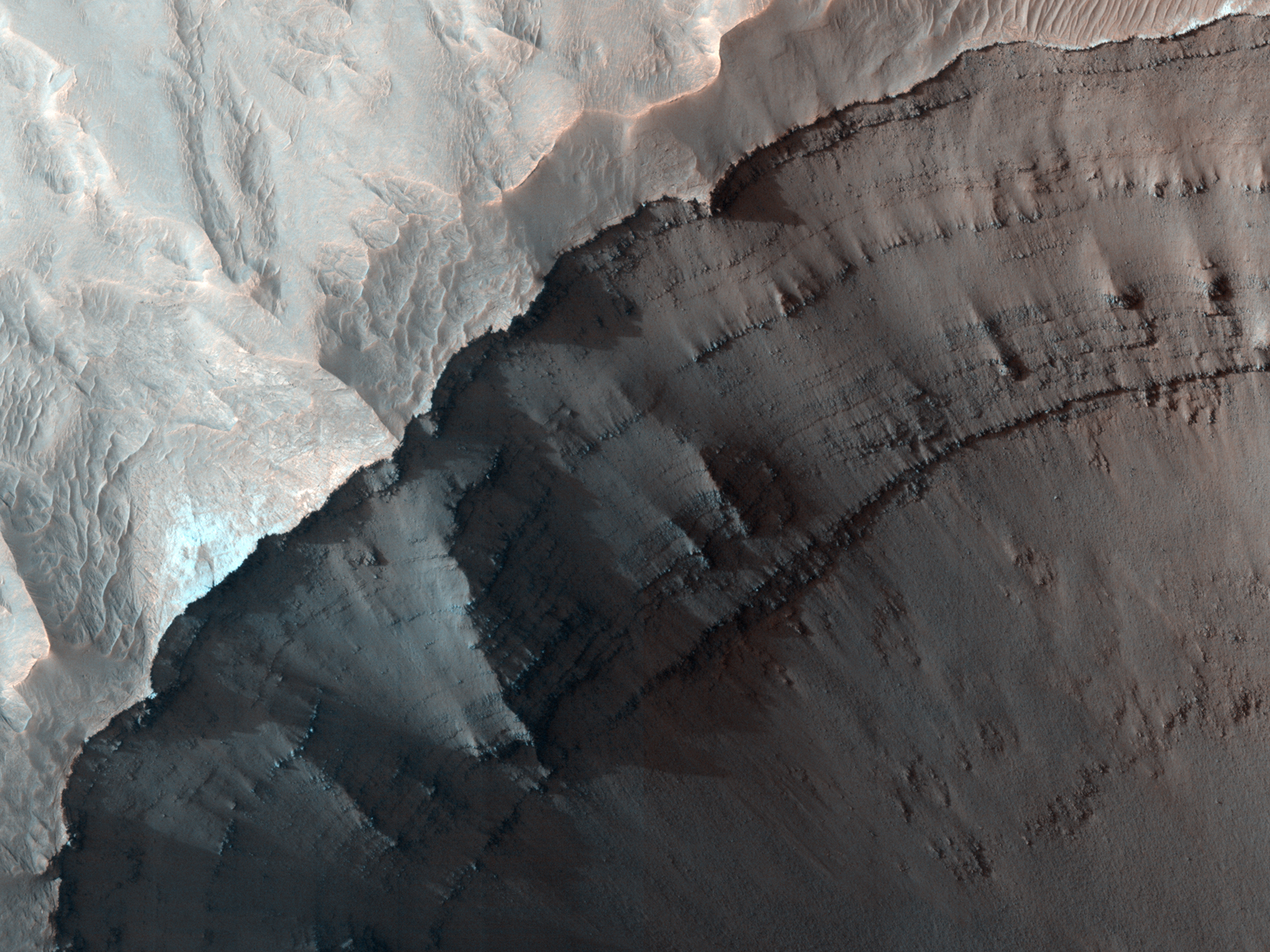 HiRise looked at a small section of Ganges Chasma, which is a trough that makes up part of Valles Marineris. The image is just stunning. Long ago, the surface of Mars in this region was flooded by lava flows. After that, time and wind began changing the surface. Windblown dust and sand covered up everything. If you click on the image and examine the larger version more closely, particularly the region near the edge of this chasm, it looks brighter and smoother than the lava flows underneath. Could this be sediments put in place by flowing water? Or did an explosive v0lcanic event layer the region with fine dust? Or, was it the work of the incessantly blowing Martian winds depositing layer upon layer of fine dust? A combination of all these factors?